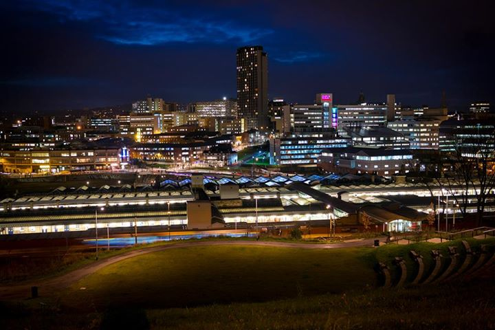 The City of Sheffield from Talbot Road.